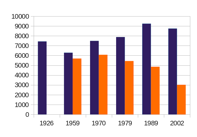 The chart depicting the Koryak population in Russia during the 20th century. The blue columns represent the total number of Koryaks in Russia, the orange ones represent the number of speakers of the Koryak language.